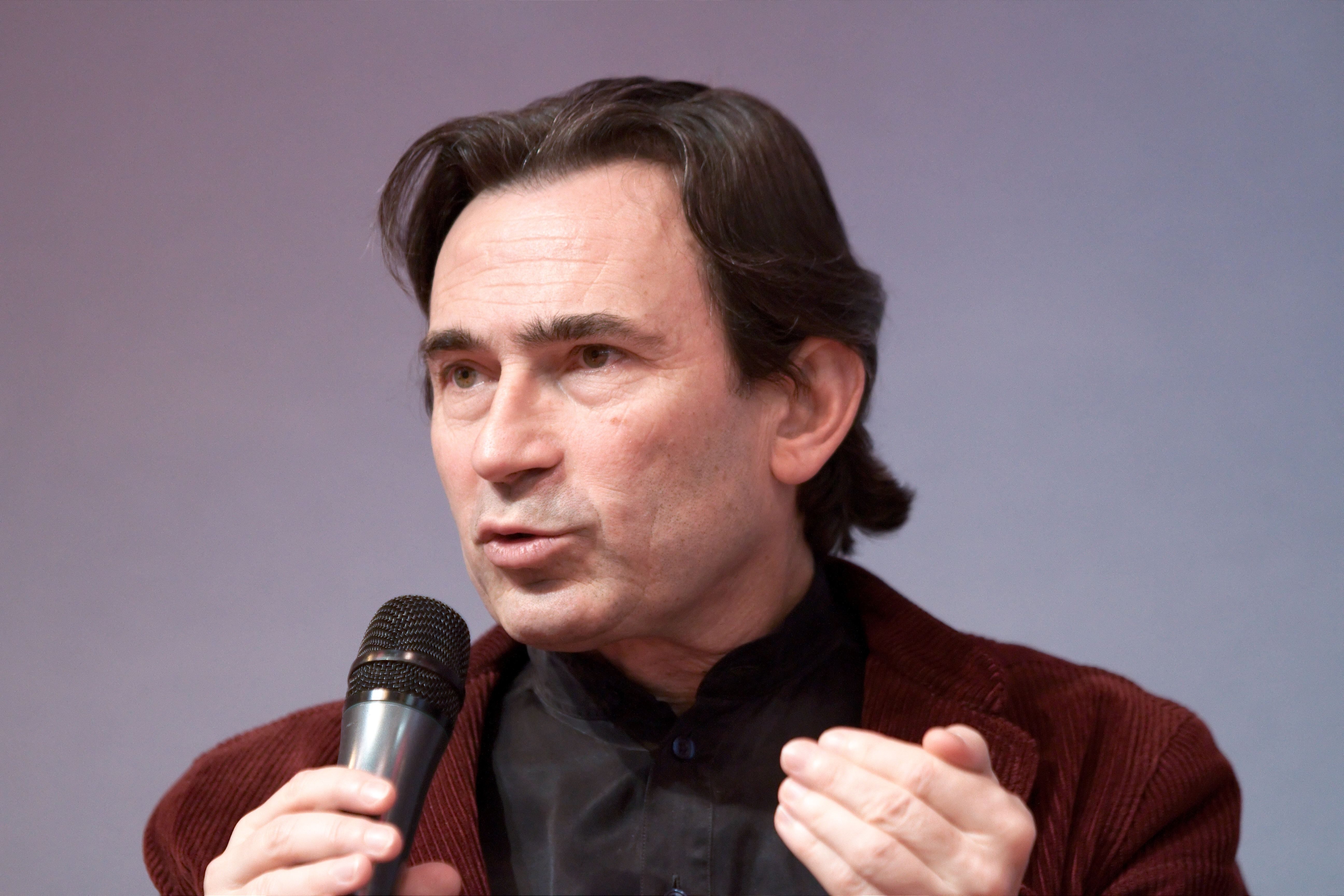 The author Benoît Peeters at the Paris Book Fair, during the debate Does copyright have a future?